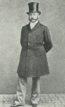 Swedish army officer, estate owner and member of the riksdag Johan Jacob Hagströmer (1820-1887)